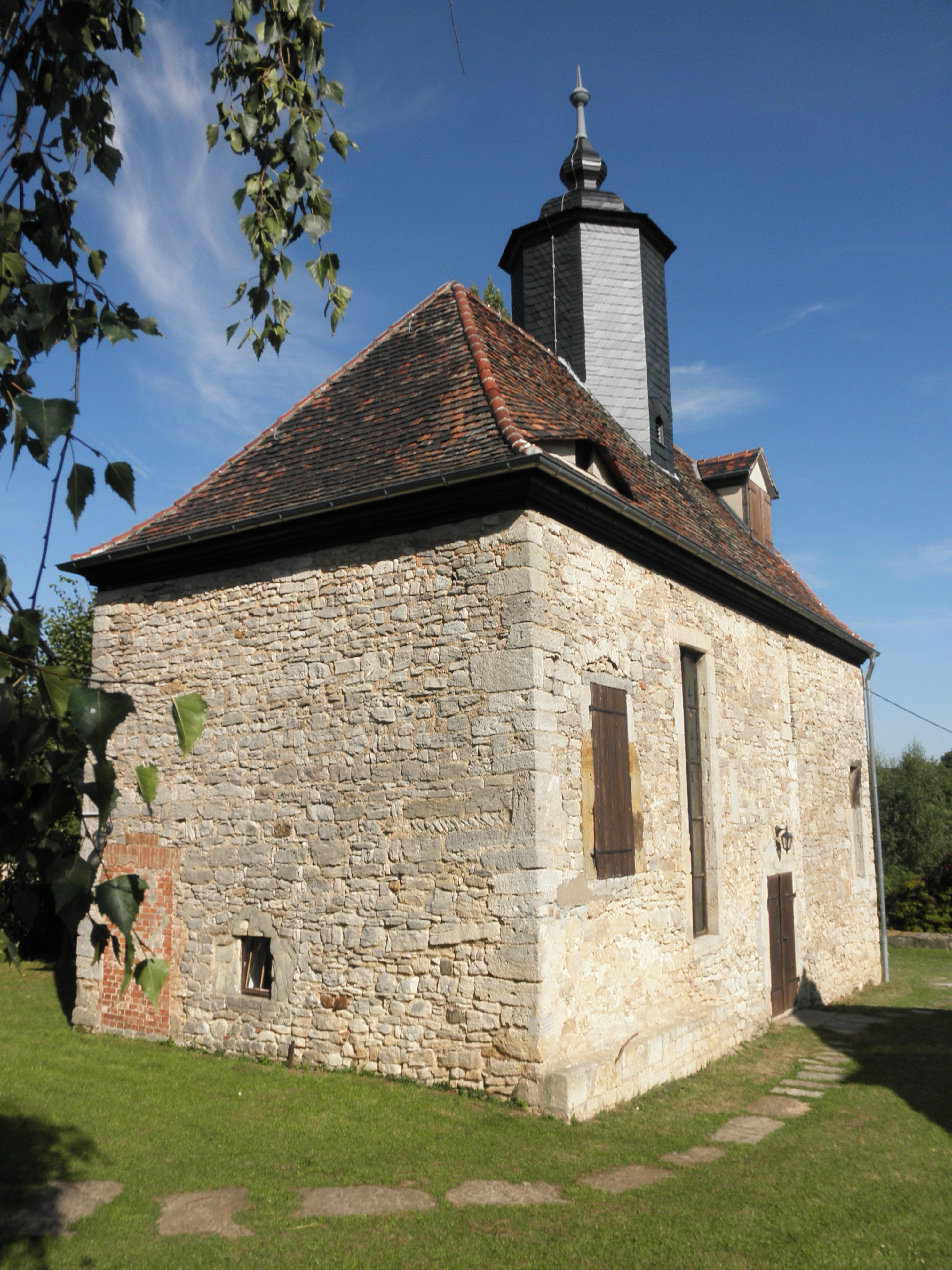 Church in Schleuskau (Frauenprießnitz) in Thuringia